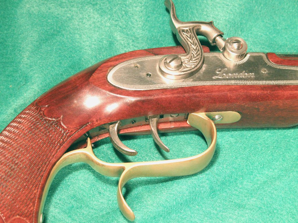 Double set trigger of a .45 muzzle-loader pistol Parker of London. Self shot photograph january 2007.